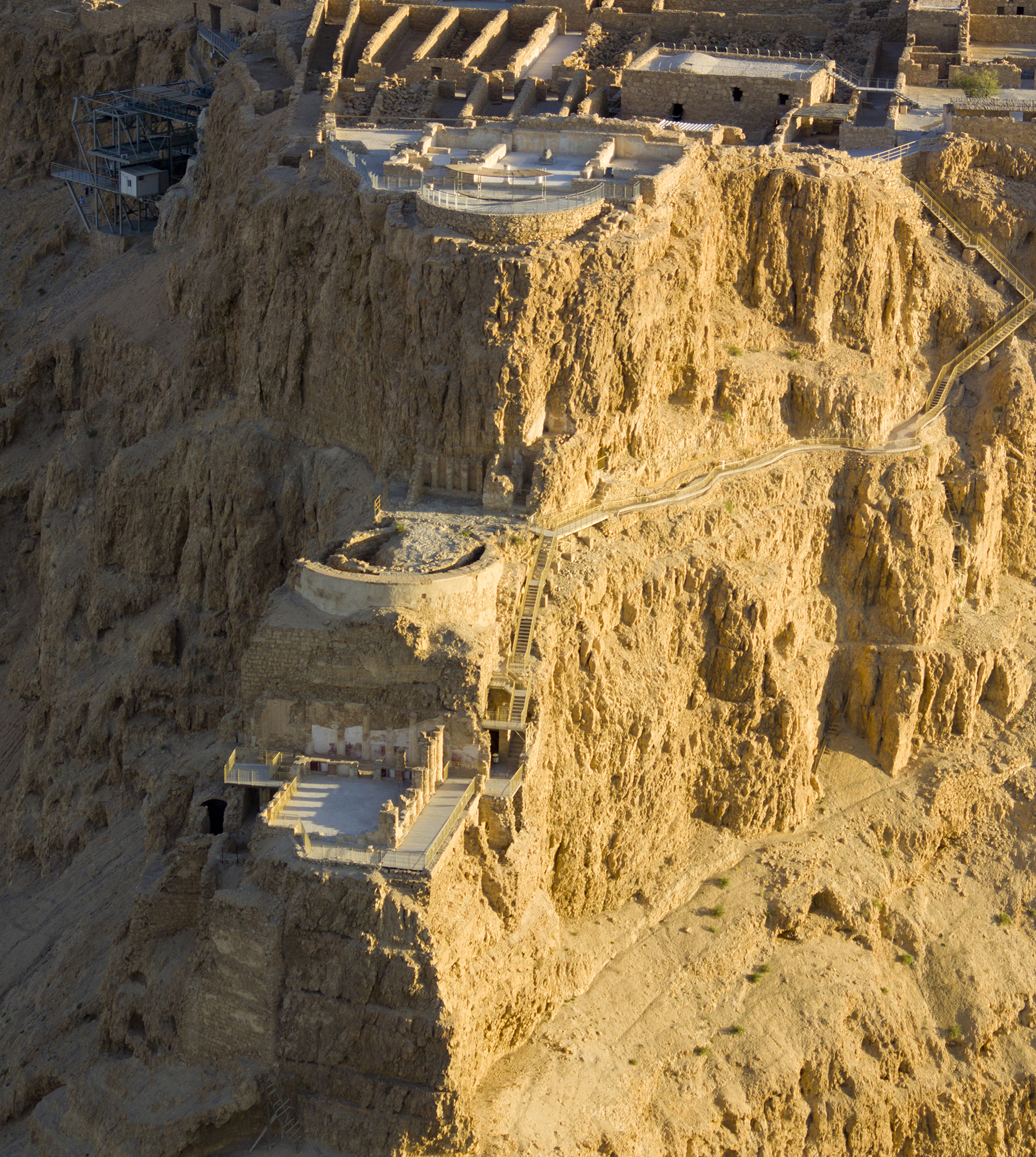 Aerial view of Masada (Hebrew מצדה), in the Judaean Desert (Hebrew: מִדְבַּר יְהוּדָה, Arabic: صحراء يهودا), with the Dead Sea in the distance.